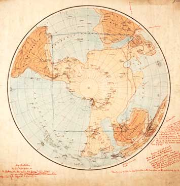 Map is the first used name Antarctica by Scotish geographer John George Bartholomew in 1886.